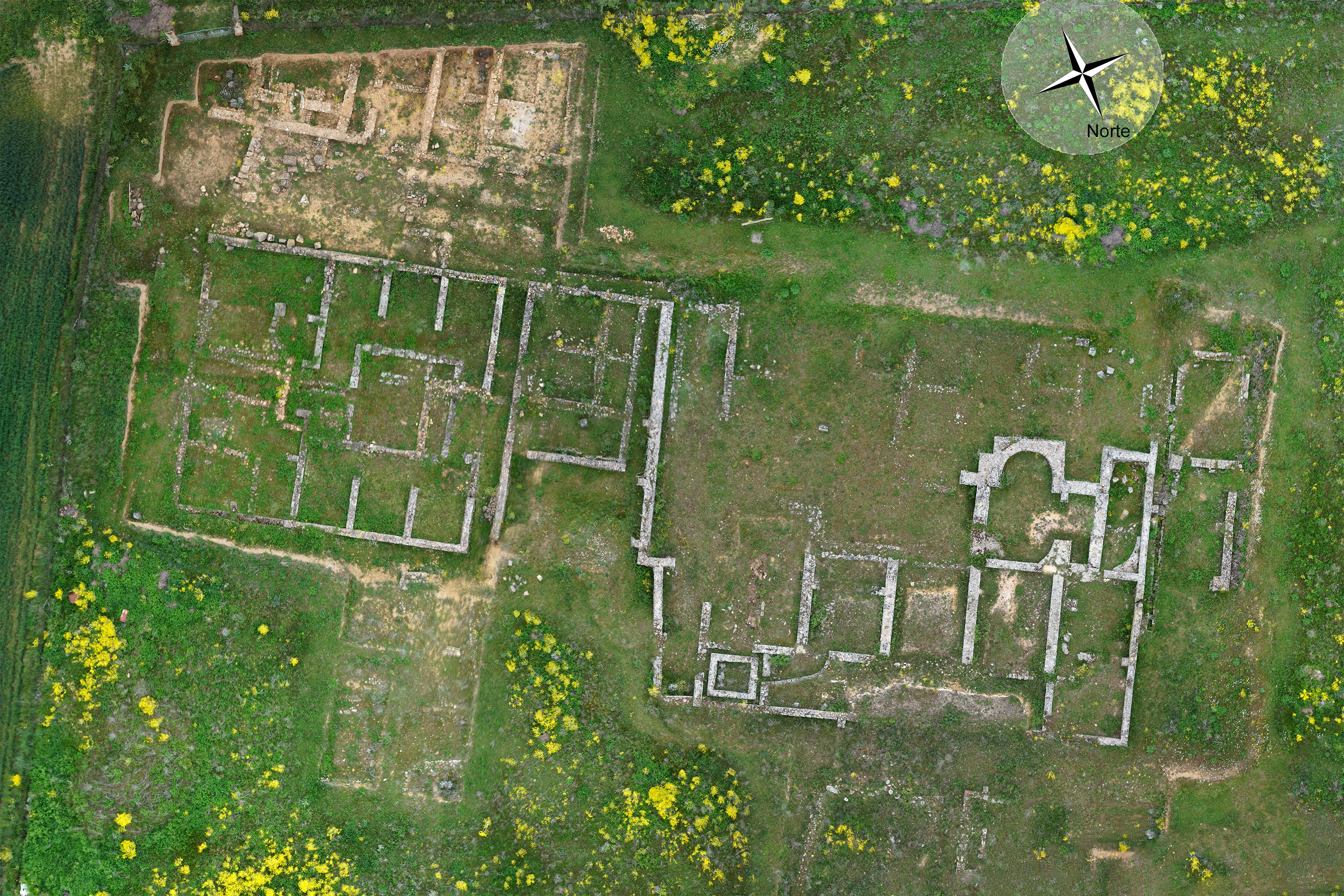 Partial aerial view of archaeological site of Lancia ancient city, Villasabariego (León, Spain). Picture taken by Smart Drone with a drone.